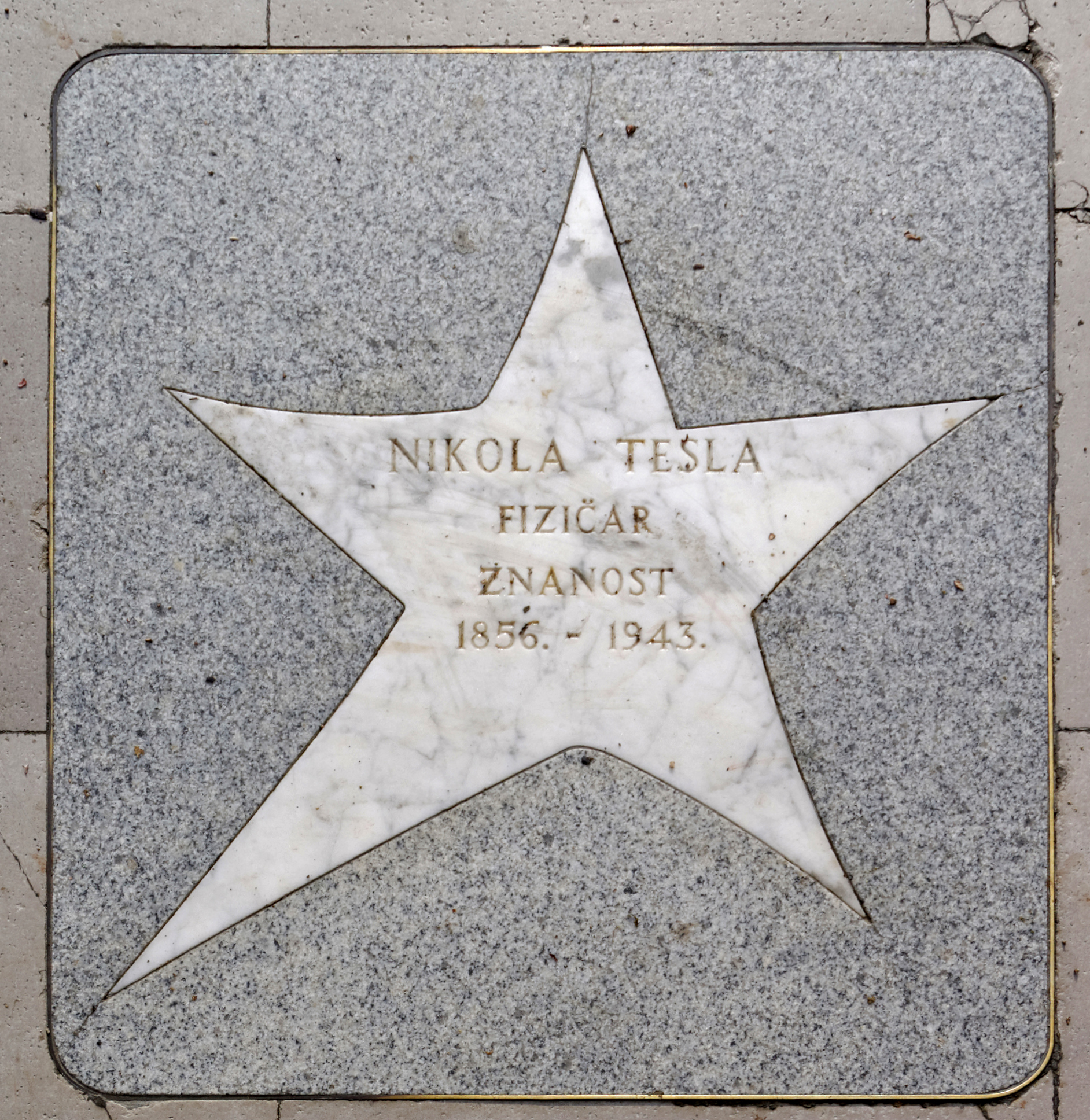 Croatia, Opatija, Walk of Fame, star of Nikola Tesla